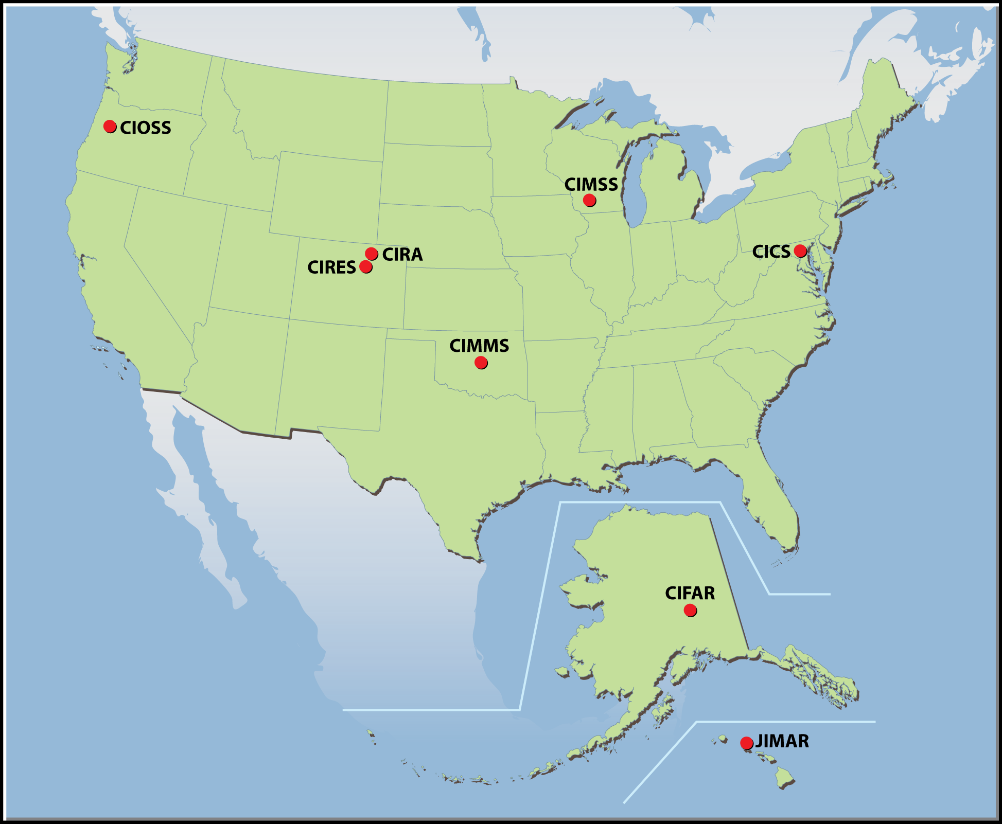 Updated map reflecting the most current GOES-R Cooperative Institutes